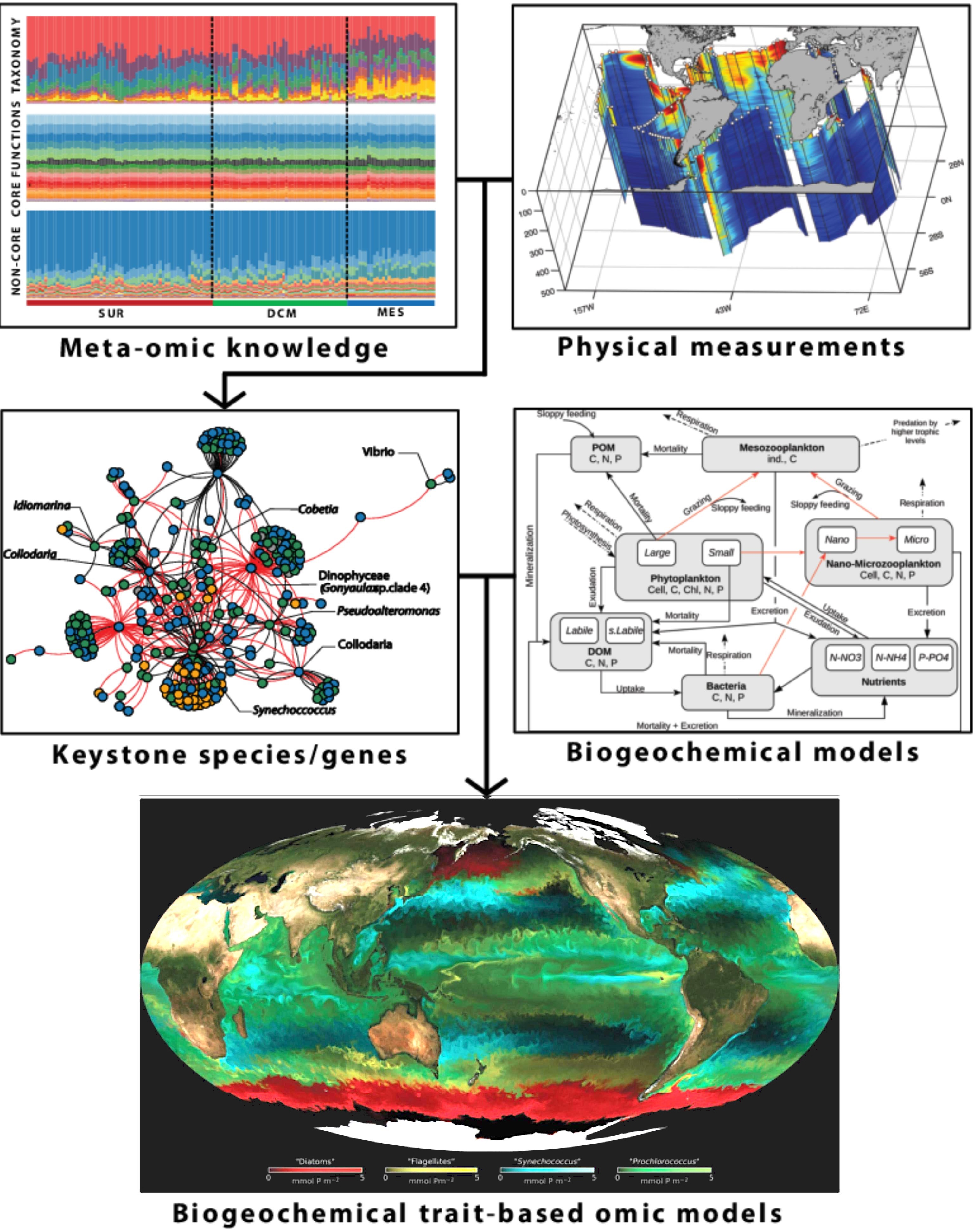 Meta-omics data based biogeochemical modeling. A schematic conceptual framework for global biogeochemical modeling from environmental, imaging, and meta-omics data (Sunagawa et al., 2015). A semi-automatic computational pipeline is schematized for combining biomarkers with biogeochemical data (Guidi et al., 2016) that can be incorporated into classic biogeochemical models (Guyennon et al., 2015) for creating a next generation of biogeochemical trait-based meta-omics models by considering their respective traits. Such novel meta-omics-enabled approaches aim to improve the monitoring and prediction of ocean processes while respecting the complexity of the planktonic system. For more information, see Louca et al. (2016) and Coles et al. (2017). The biogeochemical model is taken from [1] Sunagawa, S., Coelho, L. P., Chaffron, S., Kultima, J. R., Labadie, K., Salazar, G., et al. (2015). "Ocean plankton. Structure and function of the global ocean microbiome". Science, 348: 1261359. Guidi, L., Chaffron, S., Bittner, L., Eveillard, D., Larhlimi, A., Roux, S., et al. (2016). "Plankton networks driving carbon export in the oligotrophic ocean". Nature, 532: 465–470. Guyennon, A., Baklouti, M., Diaz, F., Palmieri, J., Beuvier, J., Lebaupin-Brossier, C., et al. (2015). "New insights into the organic carbon export in the Mediterranean Sea from 3-D modelling". Biogeosciences, 11: 425–442. Louca, S., Parfrey, L. W., and Doebeli, M. (2016). "Decoupling function and taxonomy in the global ocean microbiome". Science, 353: 1272–1277. Coles, V. J., Stukel, M. R., Brooks, M. T., Burd, A., Crump, B. C., Moran, M. A., et al. (2017). "Ocean biogeochemistry modeled with emergent trait-based genomics". Science, 358: 1149–1154.